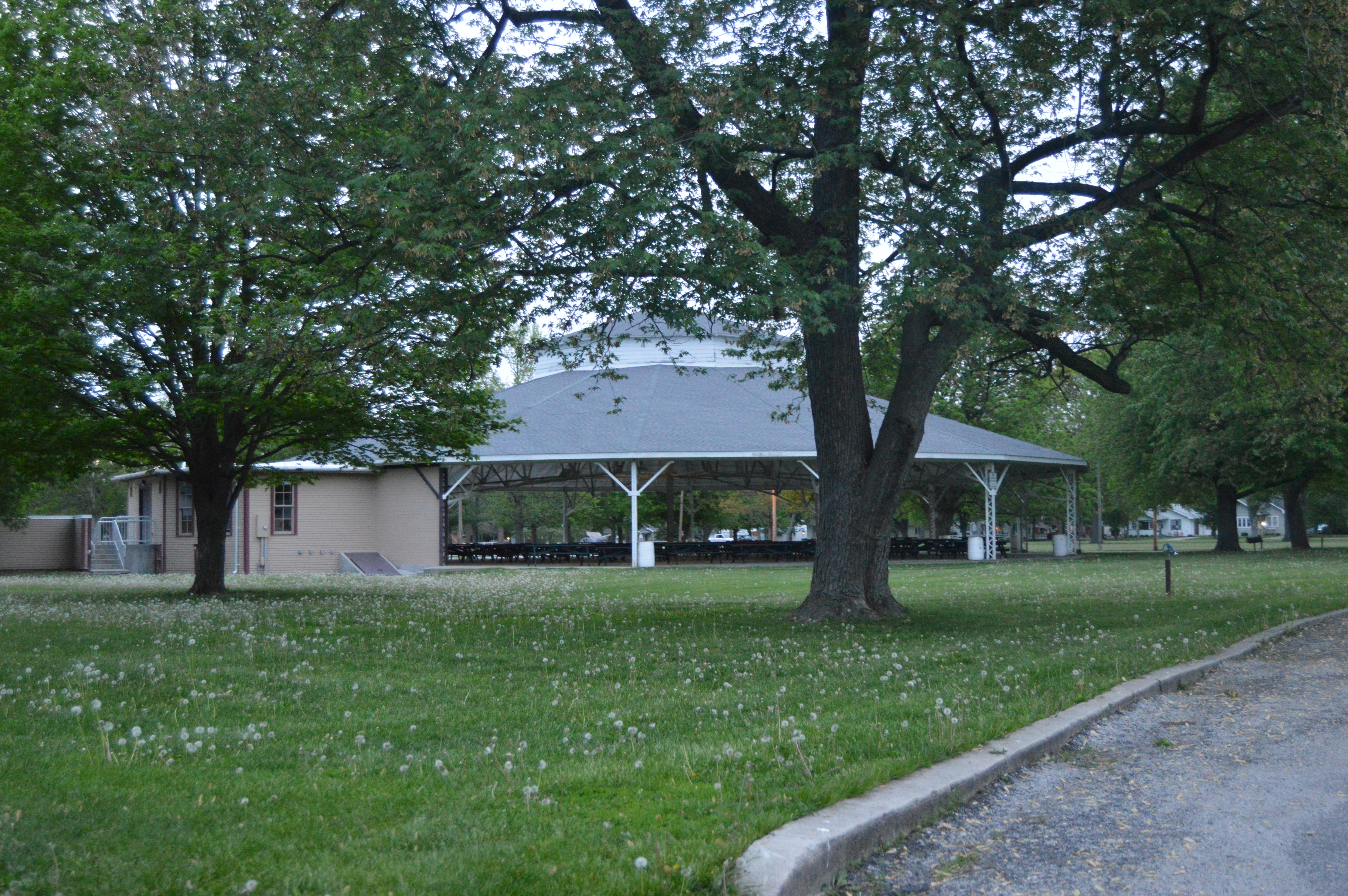 View from the east of the Chautauqua pavilion in Kitchell Park in Pana, Illinois, United States. Built in 1911, it is listed on the National Register of Historic Places along with the rest of the park.